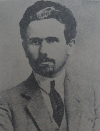 Photo of Serbian and Yugoslav politician, Lazar Vukičević (1887-1941), took in the beginning of 1920s. Scanned from the book "Komunisti Jugoslavije 1919-1979", ed. Dušan Maletić, published by "Eksport pres", Beograd 1979.